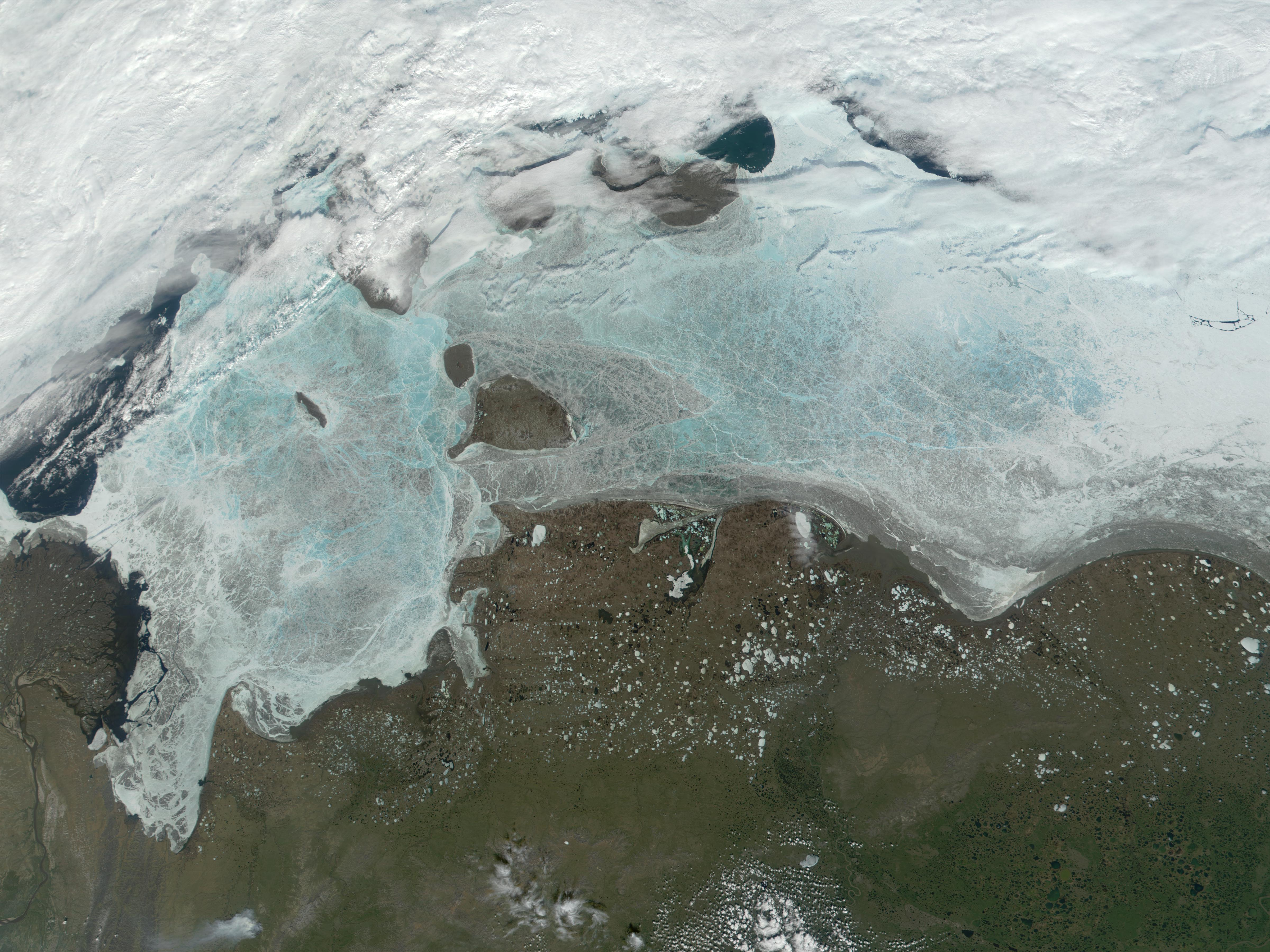 Reflection from the blue waters under thinning ice produces the pale blue-green color in this true-color MODIS image of the Laptev Sea, north of Eastern Siberia.